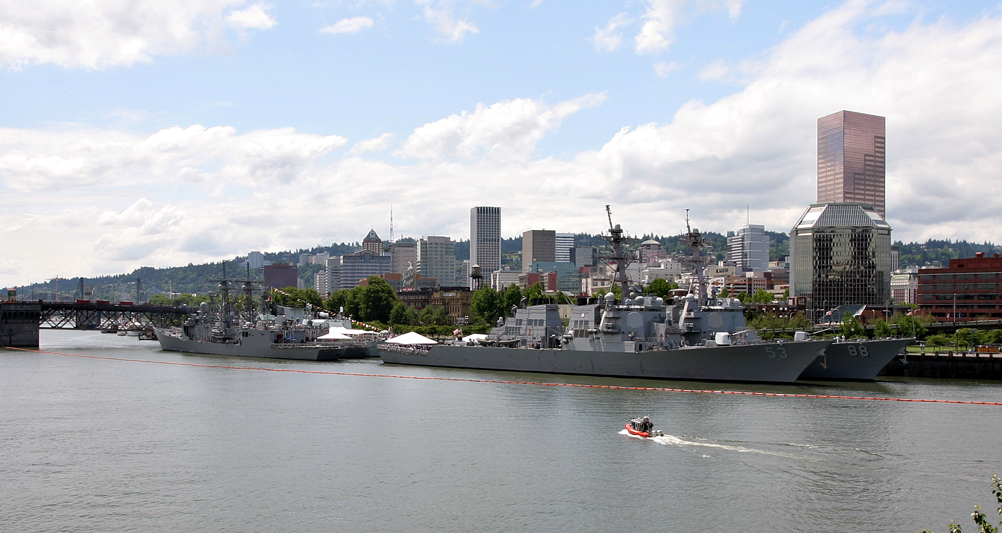 Several U.S. Navy warships docked along Waterfront Park in Portland, Oregon during Rose Festival. Known as Fleet Week, it is one of the highlights of the Rose Festival.